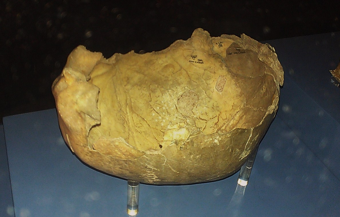 A Palaeolithic human skull from Gough's Cave that has been identified as having potential cannibalistic connotations. Image taken when they were exhibited at the Natural History Museum in Summer 2014.